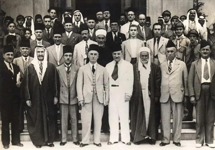 Group picture of delegates from the pan-Arab conference held in Bloudan, Syria on 8 September 1937. From left to right: Unknown delegate, Mohammad Allabi Pasha, Mohammad Ali Eltaher, Ihsan al-Jabiri, Riad al-Solh, Ali Obeid, Sa'id al-Hajj Thabet, and Hamad Saab